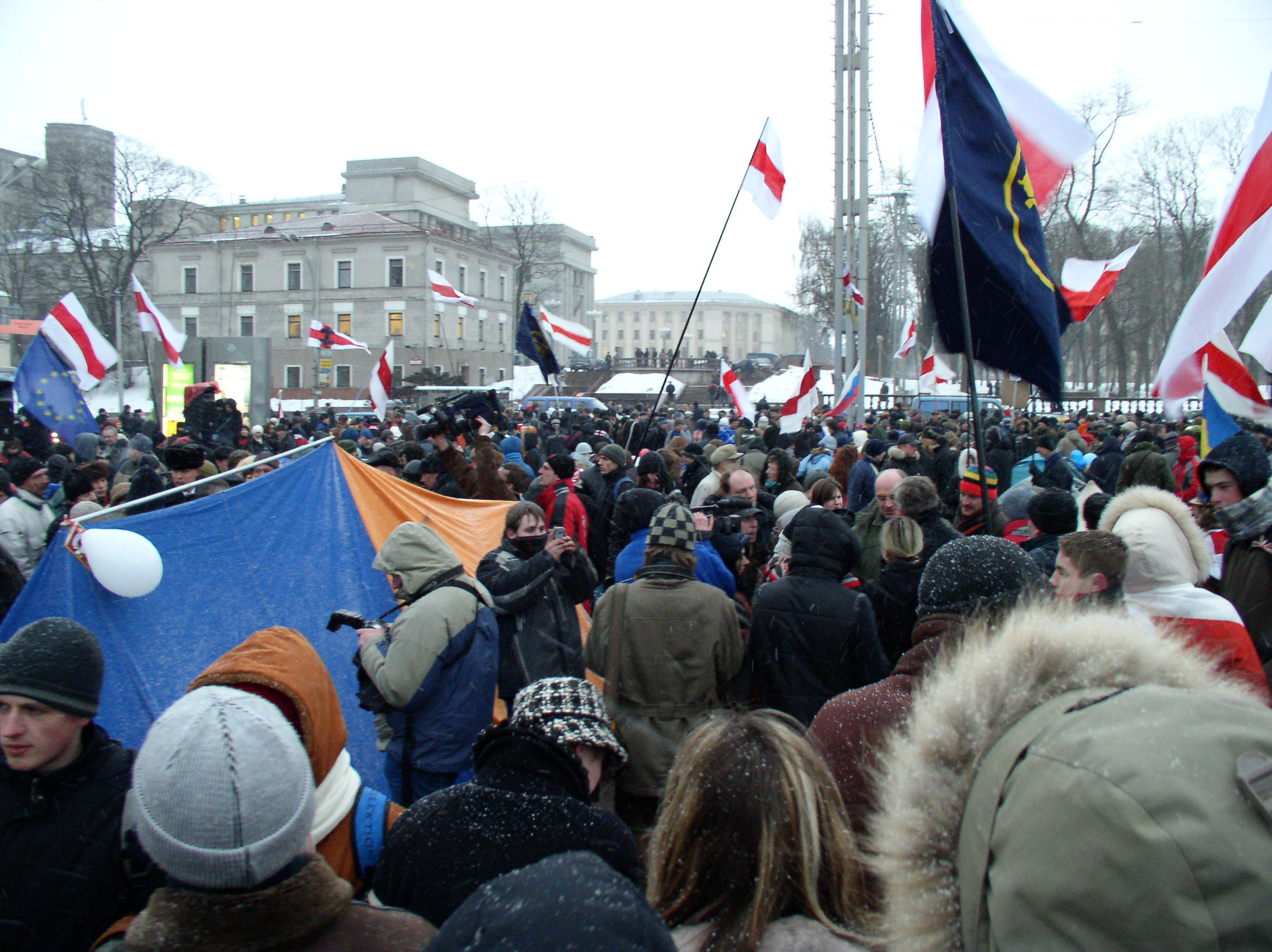 Opposition "Tent town". Minsk, Belarus.